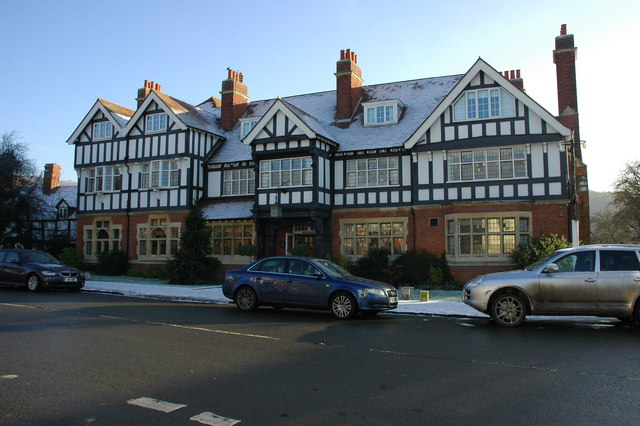 Colwall Park Hotel, Walwyn Road, Colwall Stone, Herefordshire